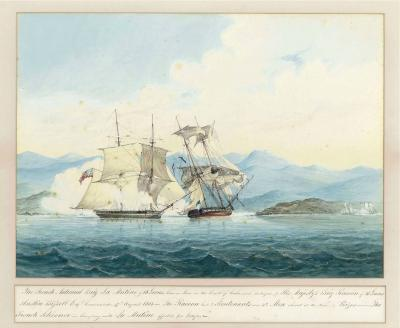 Capture of privateer Mutine by HMS Racoon, 1803. Pencil, pen and brown ink and watercolour heightened with white and with scratching out, on paper 13¾ x 18 in. (34.9 x 45.8 cm.)